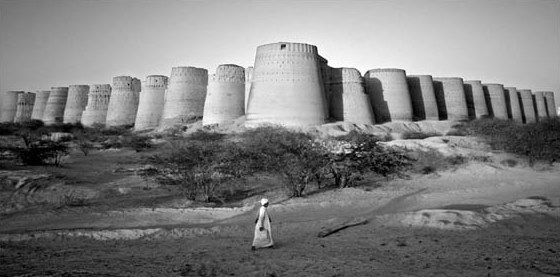 Derawar Fort at sunset.